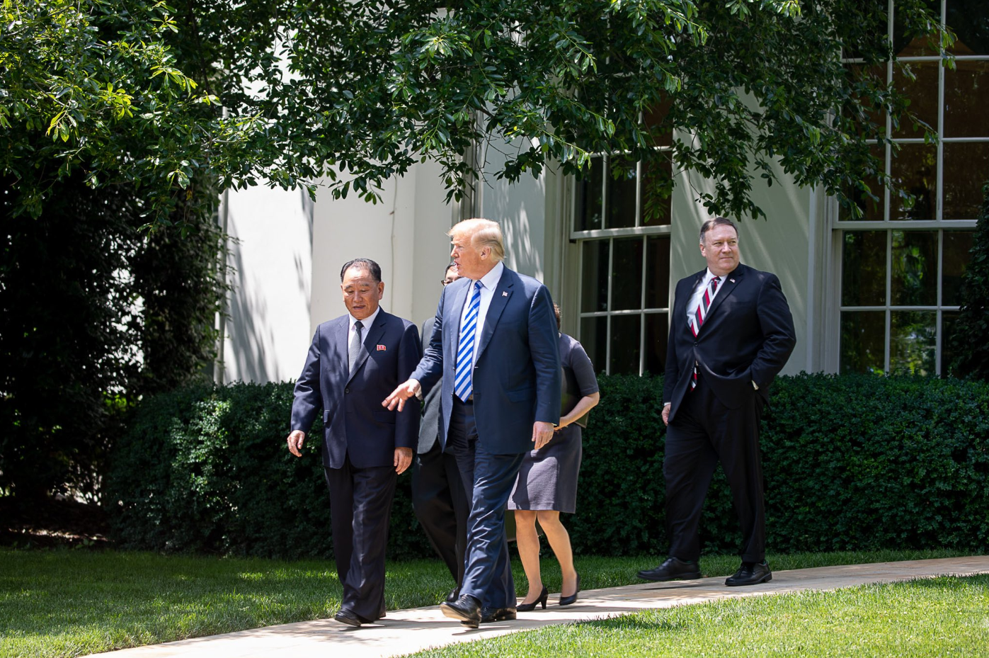 Outside the Oval Office with the North Korea Delegation2